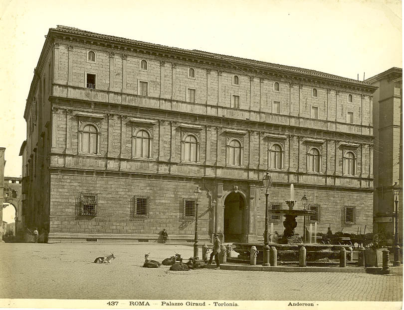 Fotografia Anderson, Rome - "Rome - Palace Giraud-Torlonia". Catalogue # 437.